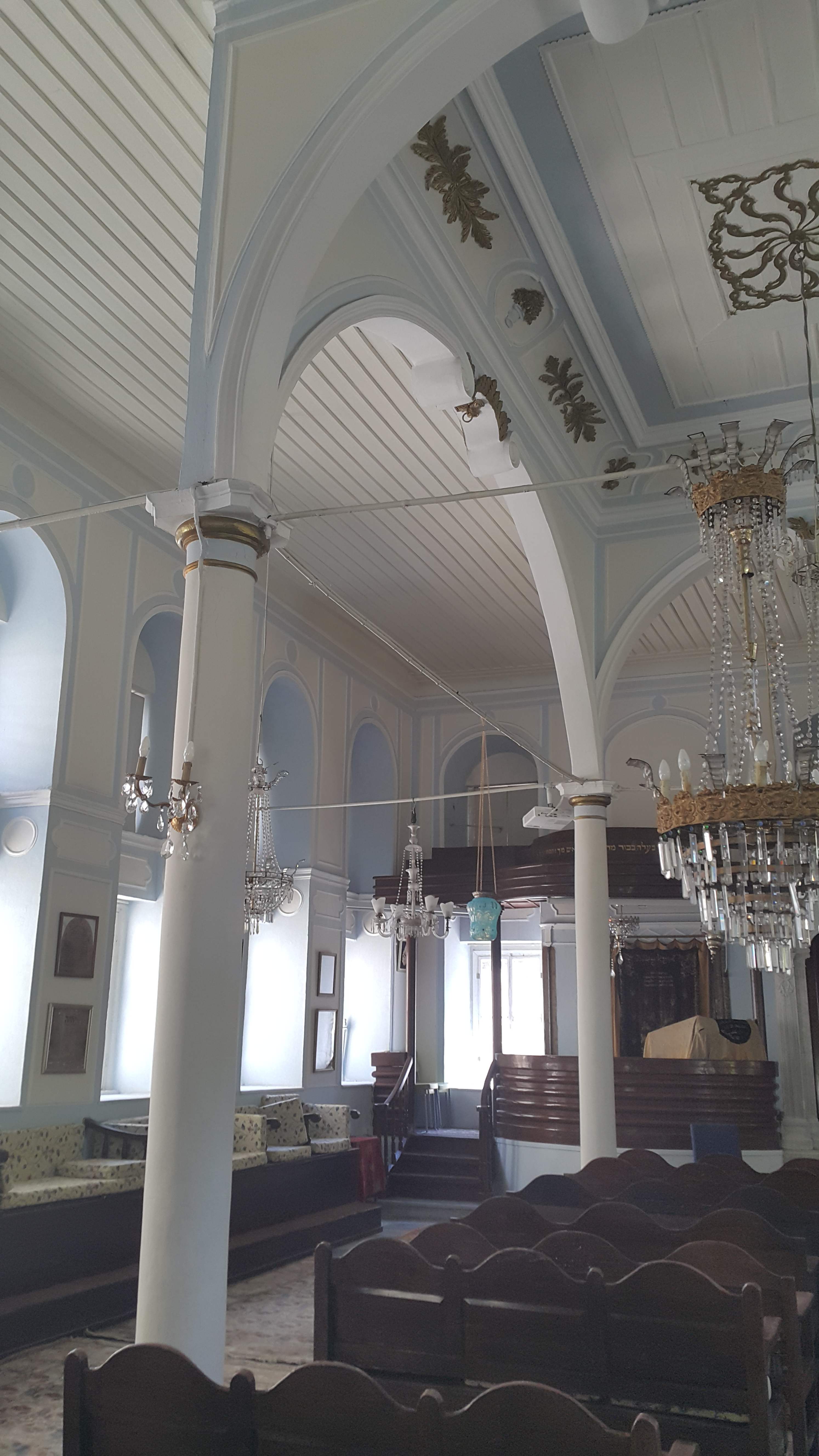 interior view